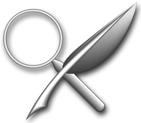 US Navy Intelligence Specialist (IS). Magnifying glass and quill.